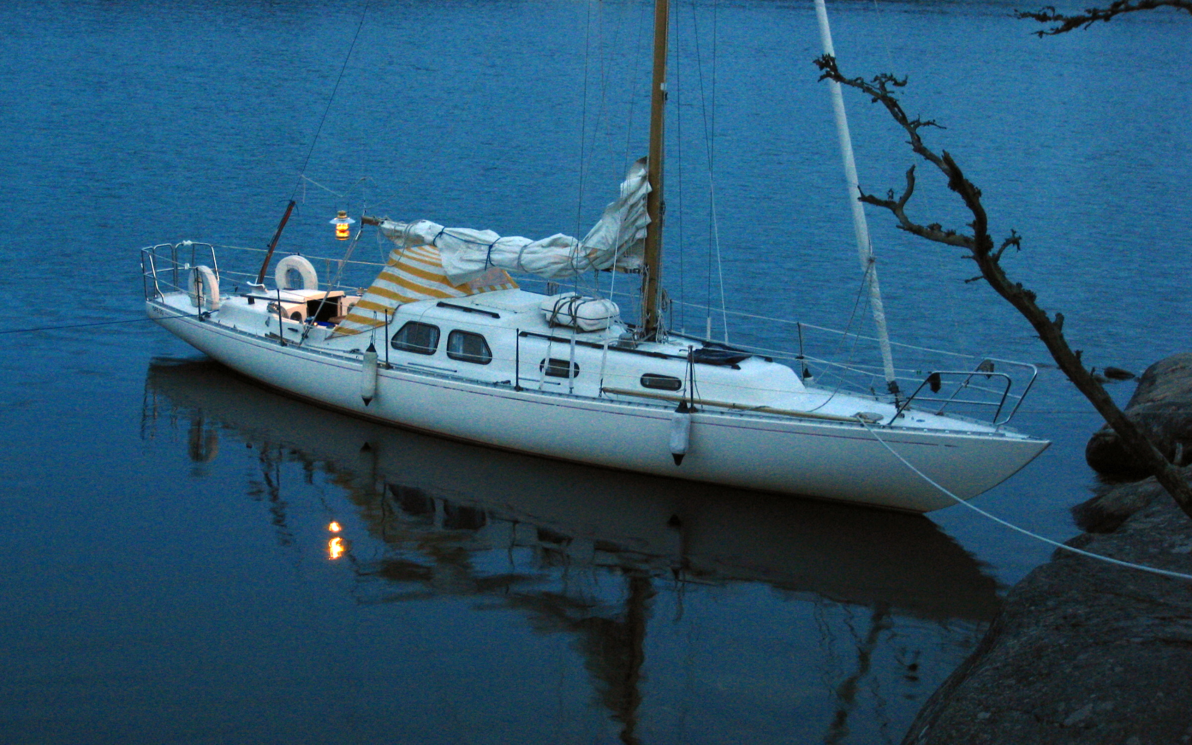 Swedish sailing yacht type S 30.